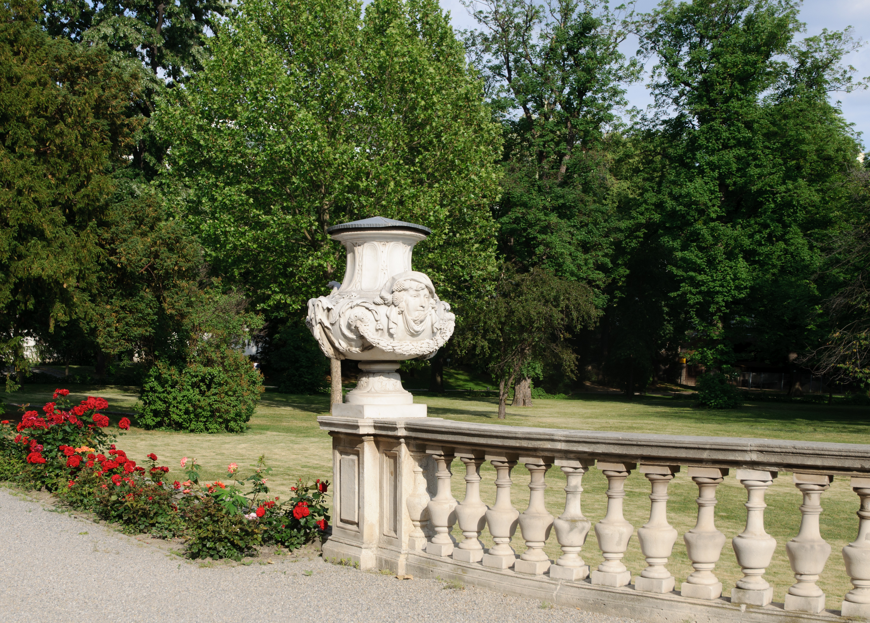 Fragment of the gardens of Liechtenstein Palace in Vienna.